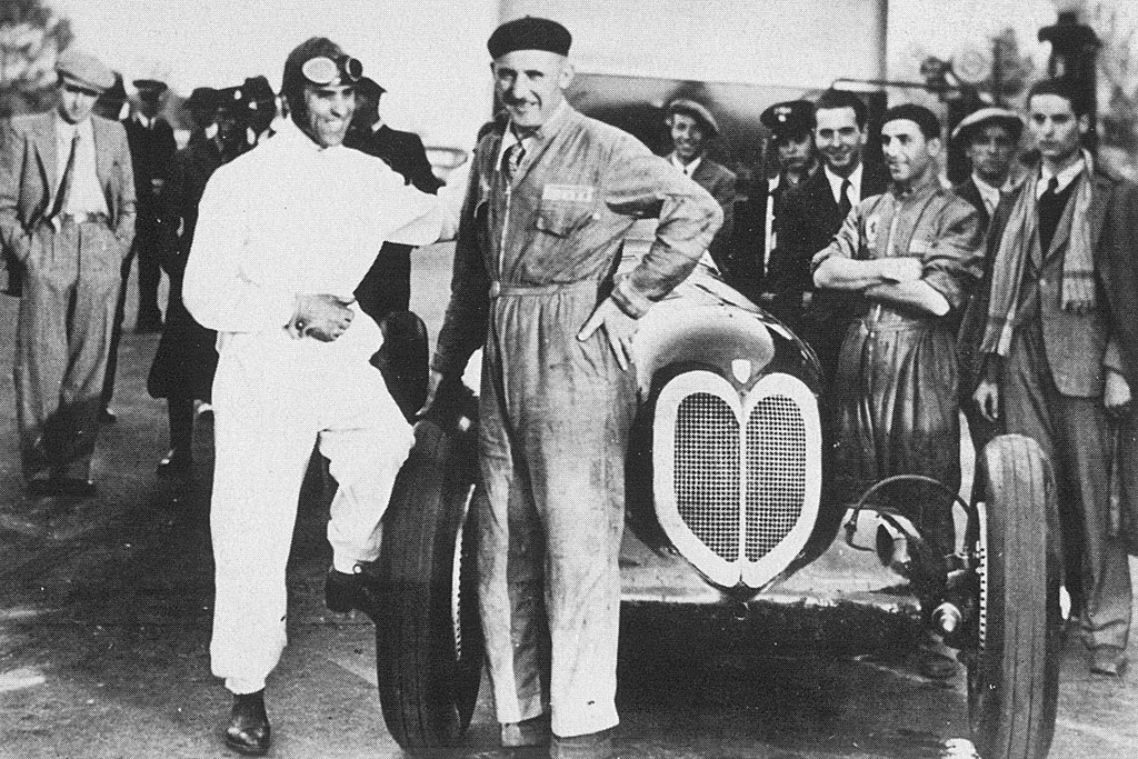 Tazio Nuvolari (driver, left) and Luigi Bazzi (engineer, right) in front of the Alfa Romeo 16C bimotore on 16 June 1935 at Altopascio in the autostrada between Firenze and Lucca. Became the first to break the "flying start" 200 mph speed barrier in the C class.[1] Precise location is the section 56.990–58.600 at Altopascio.